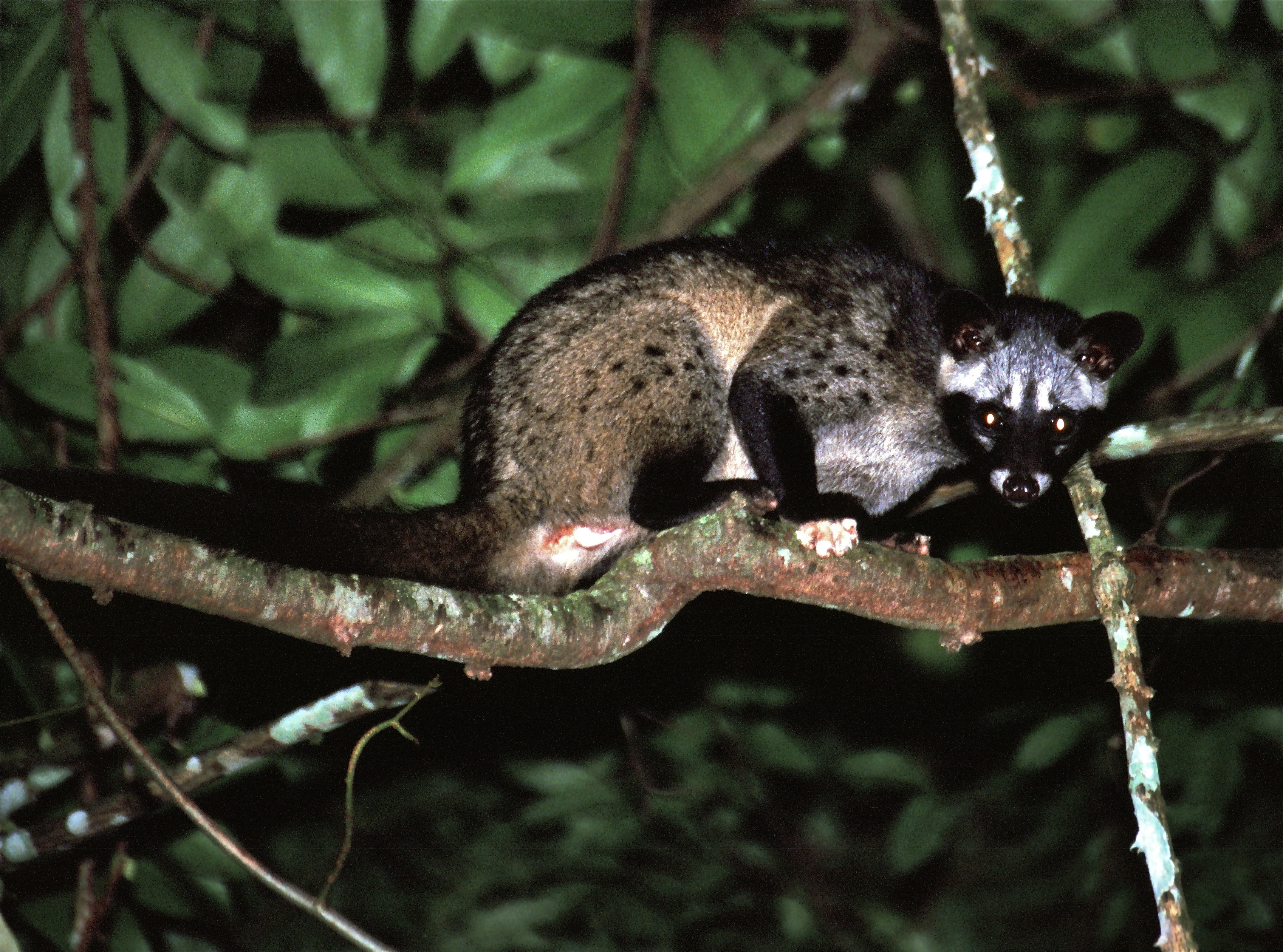 Khao Yai NP, THAILAND Scanned Slide from 2003